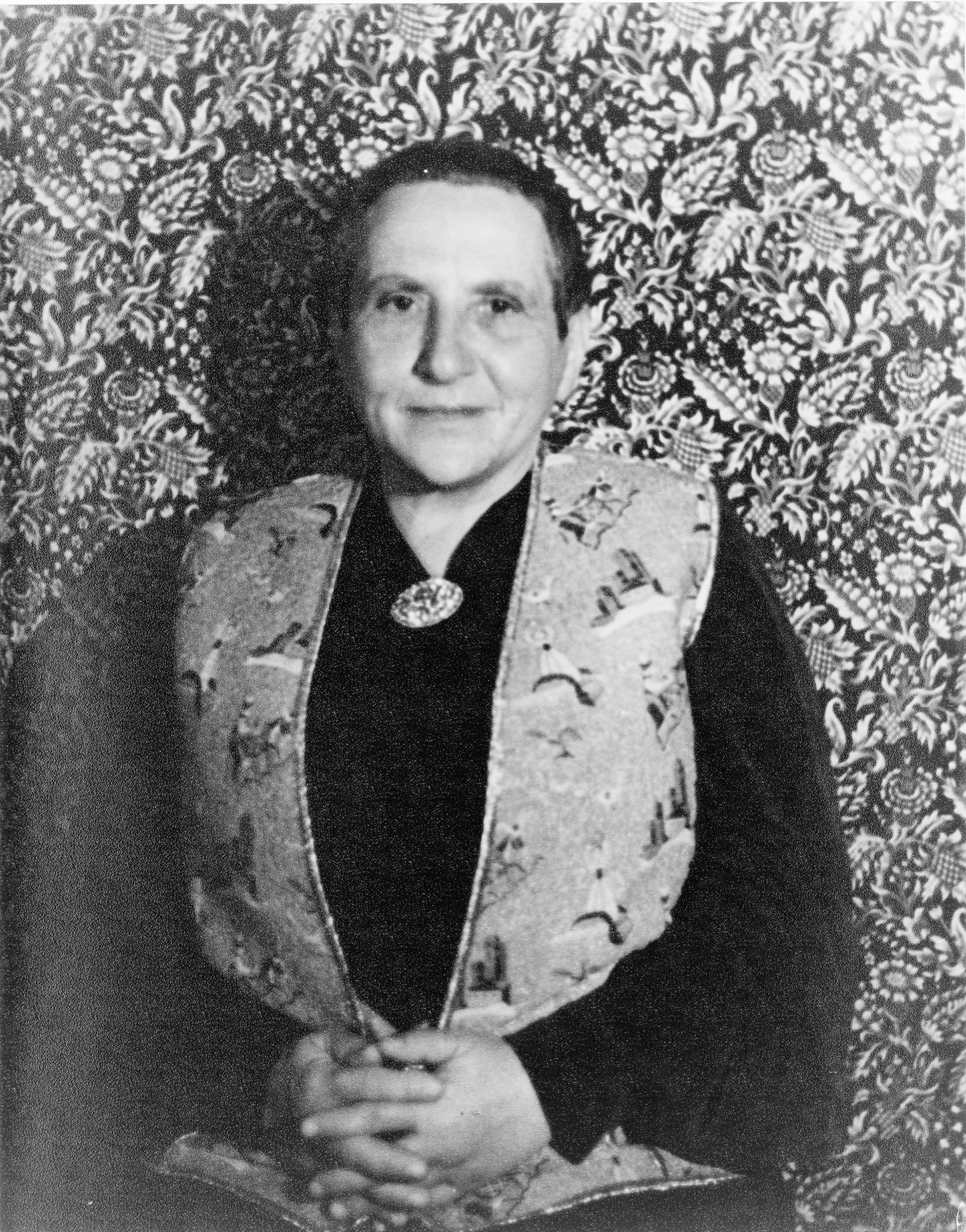 Portrait of Gertrude Stein, New York (1934 November 4)